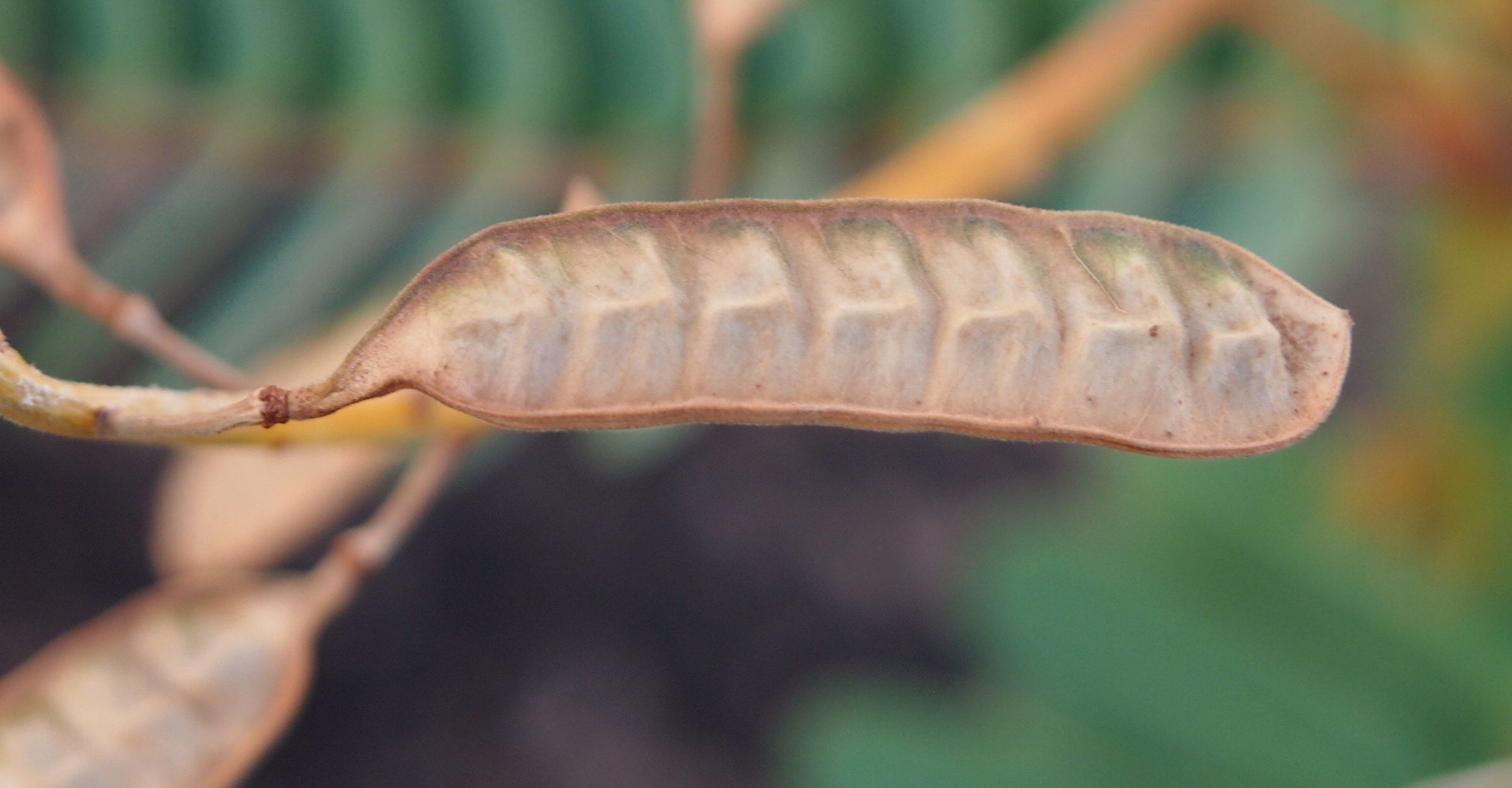 Senna artemisioides ssp. oligophylla legume